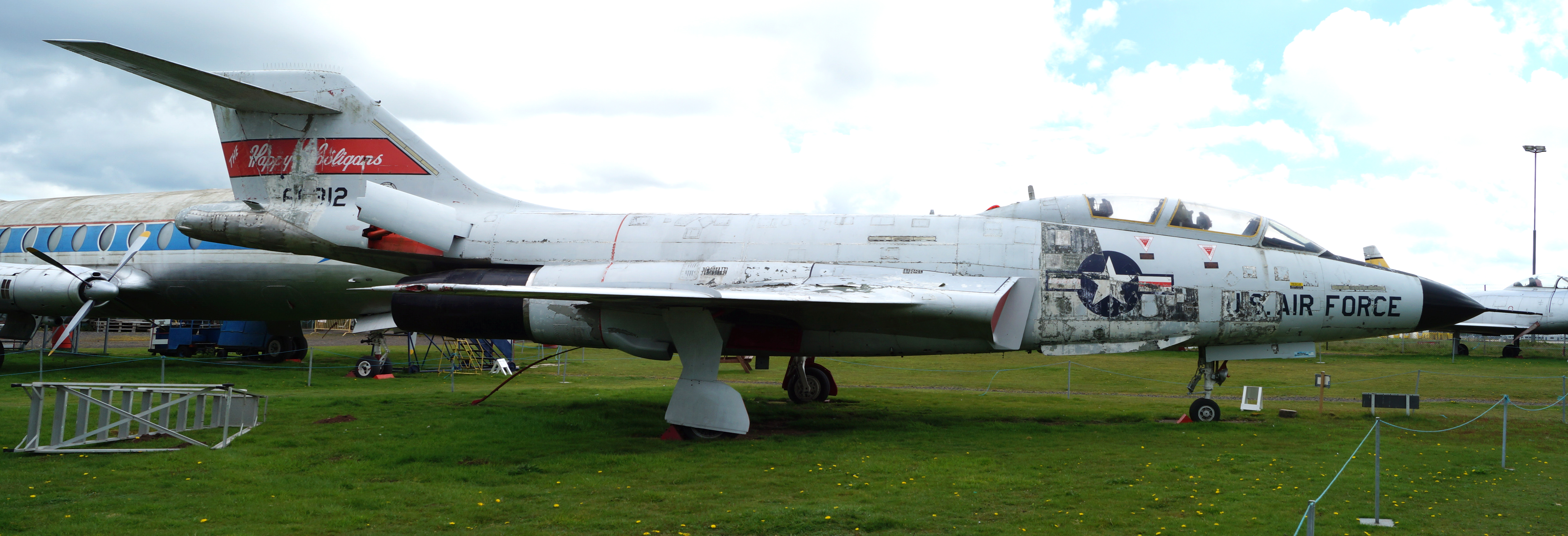 McDonnell F-101B Voodoo Serial Number 560312 at Midland Air Museum Coventry